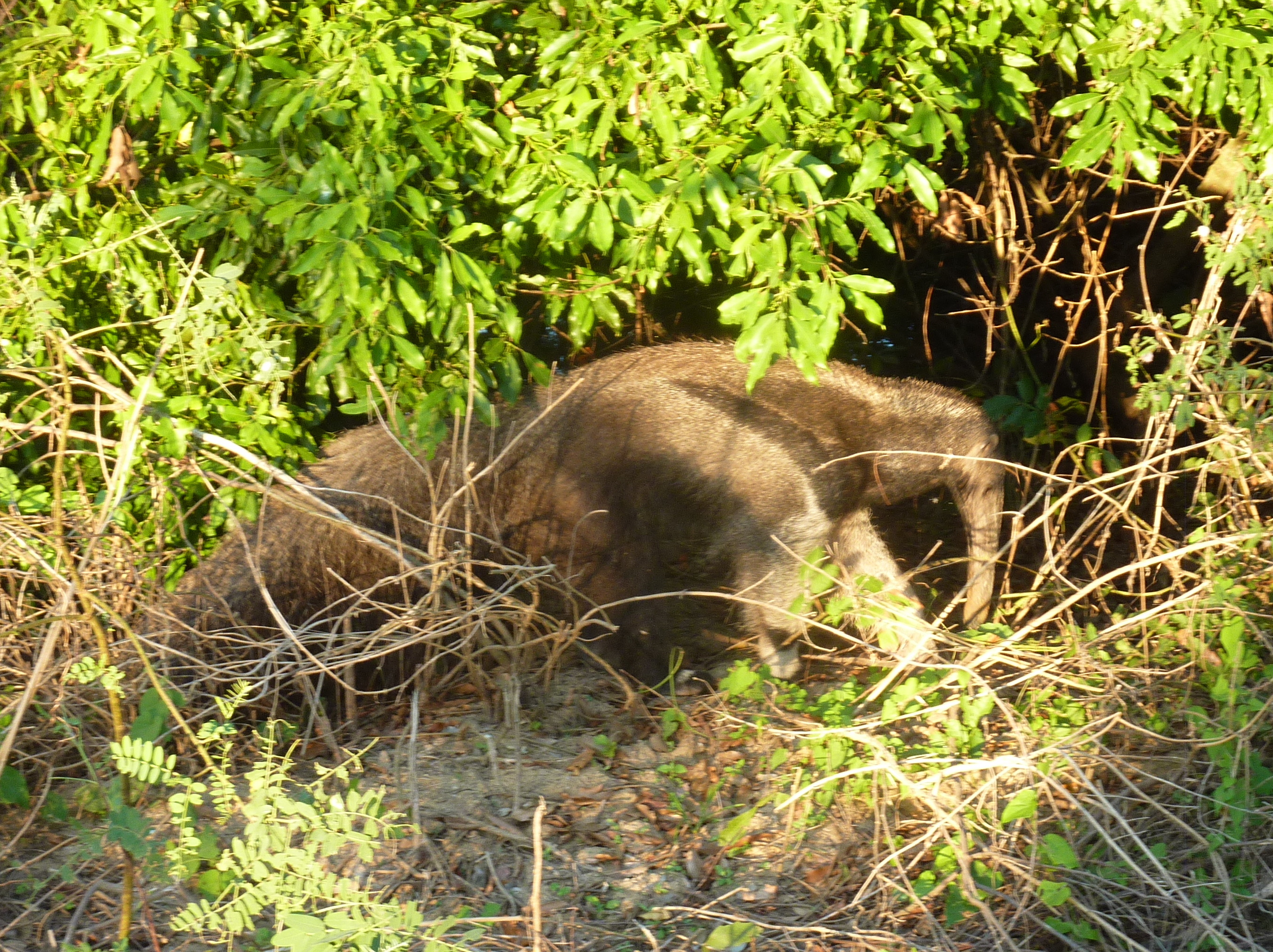 Beside the Transpantaneira road